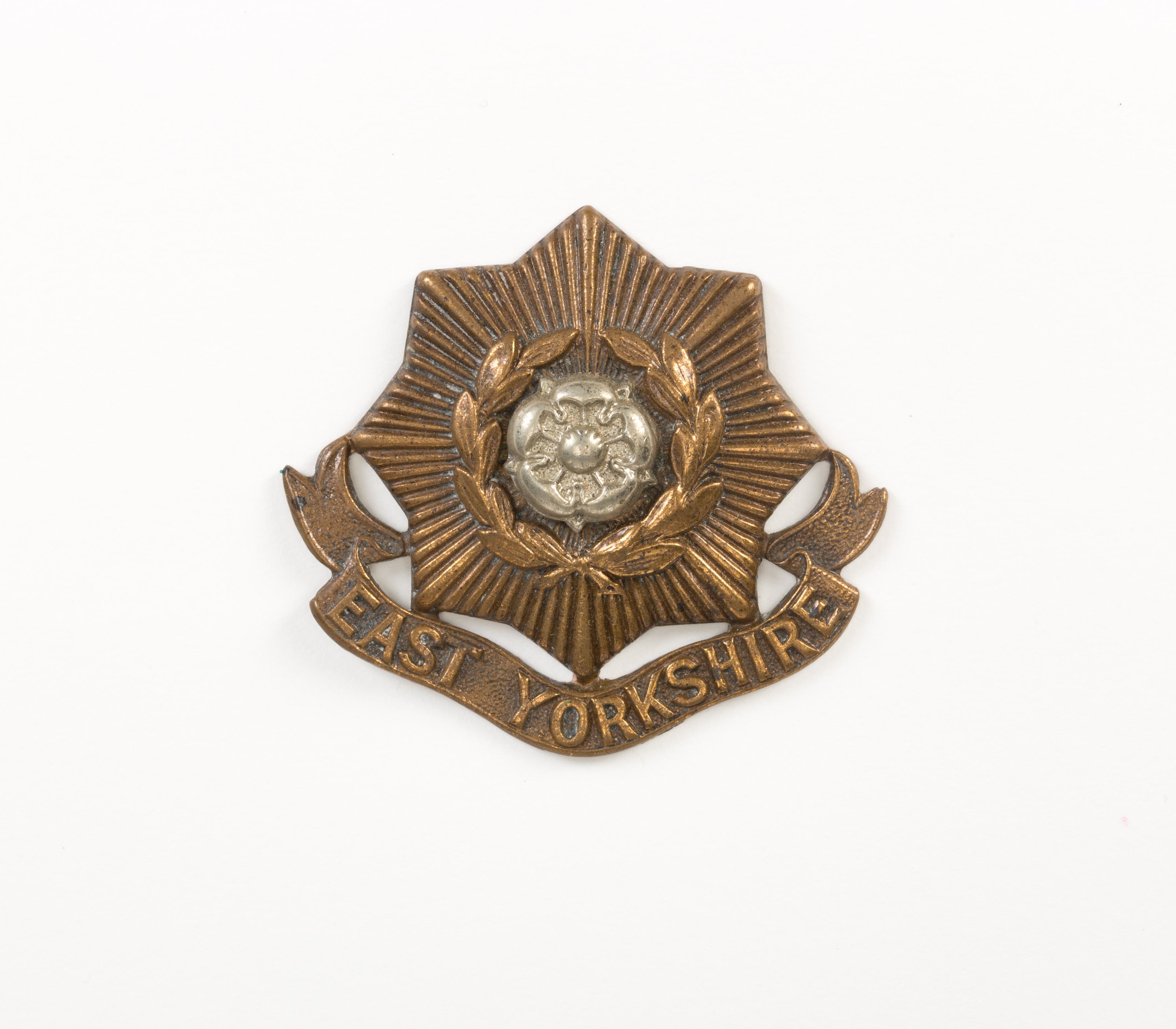 Badge, regimental. East Yorkshire Regiment cap badge bi-metal (used until 1916), missing slider The East Yorkshire Regiment was a line infantry regiment of the British Army, first raised in 1685 as Sir William Clifton's Regiment of Foot. It saw service for three centuries, before being amalgamated with the West Yorkshire Regiment (Prince of Wales's Own) to form the Prince of Wales's Own Regiment of Yorkshire in 1958.